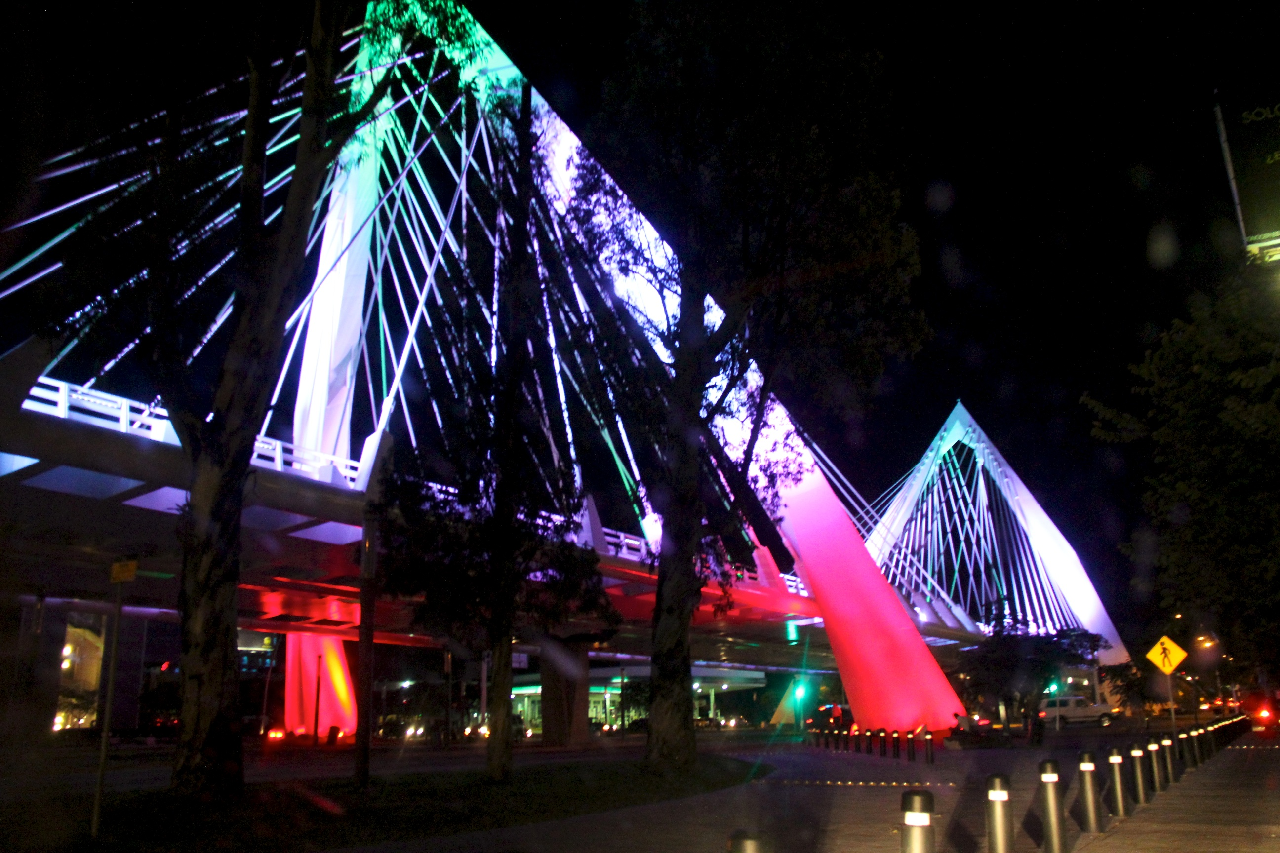 Puente Matute Remus